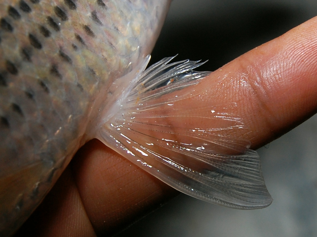 Labiobarbus fasciatus, 180 mm SL (standard length); pelvic fin. From Kawan Batu River (tributary of Mentaya River), Upper Seruyan, Central Kalimantan, Indonesia.